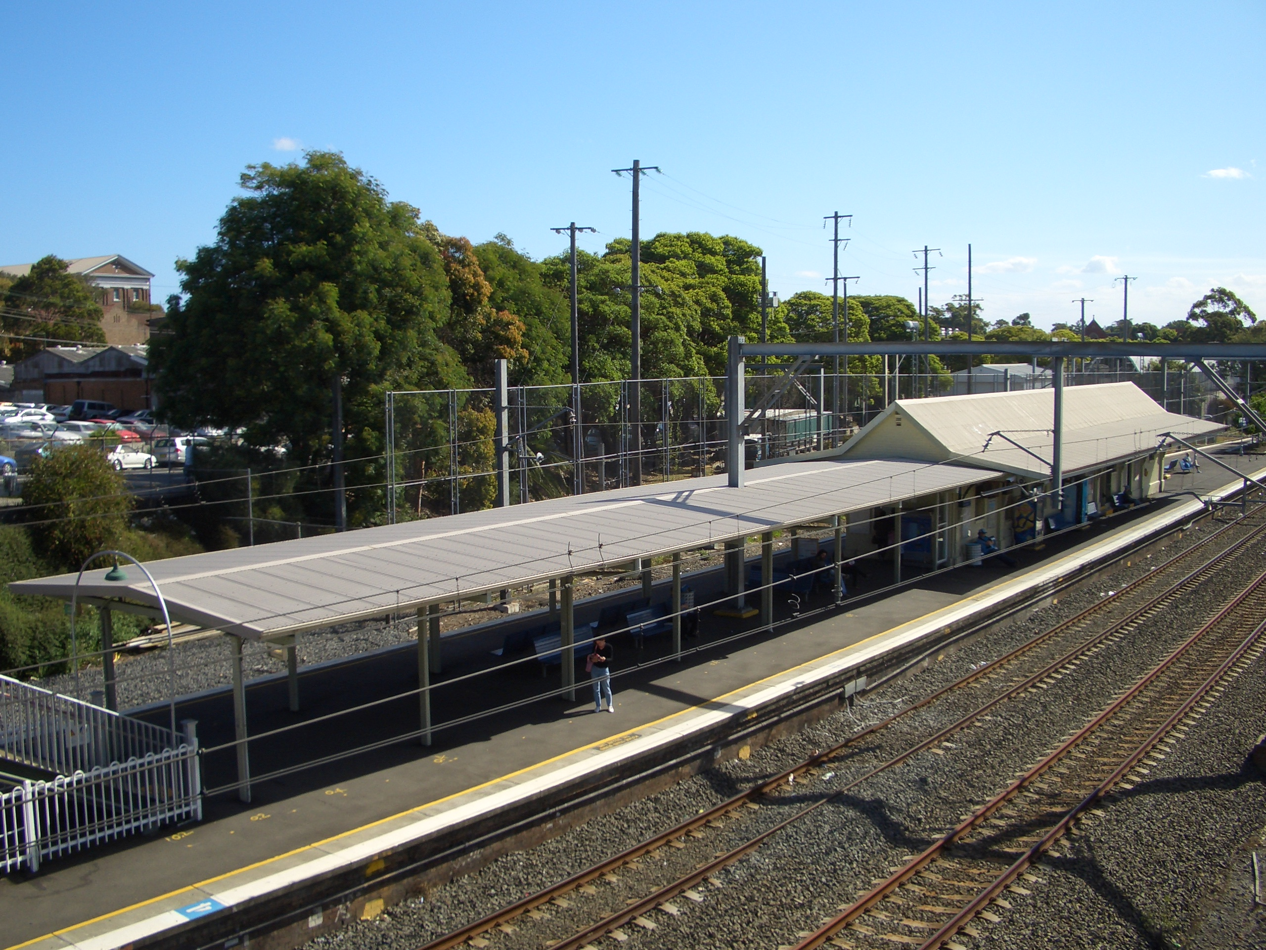 Petersham Railway Station